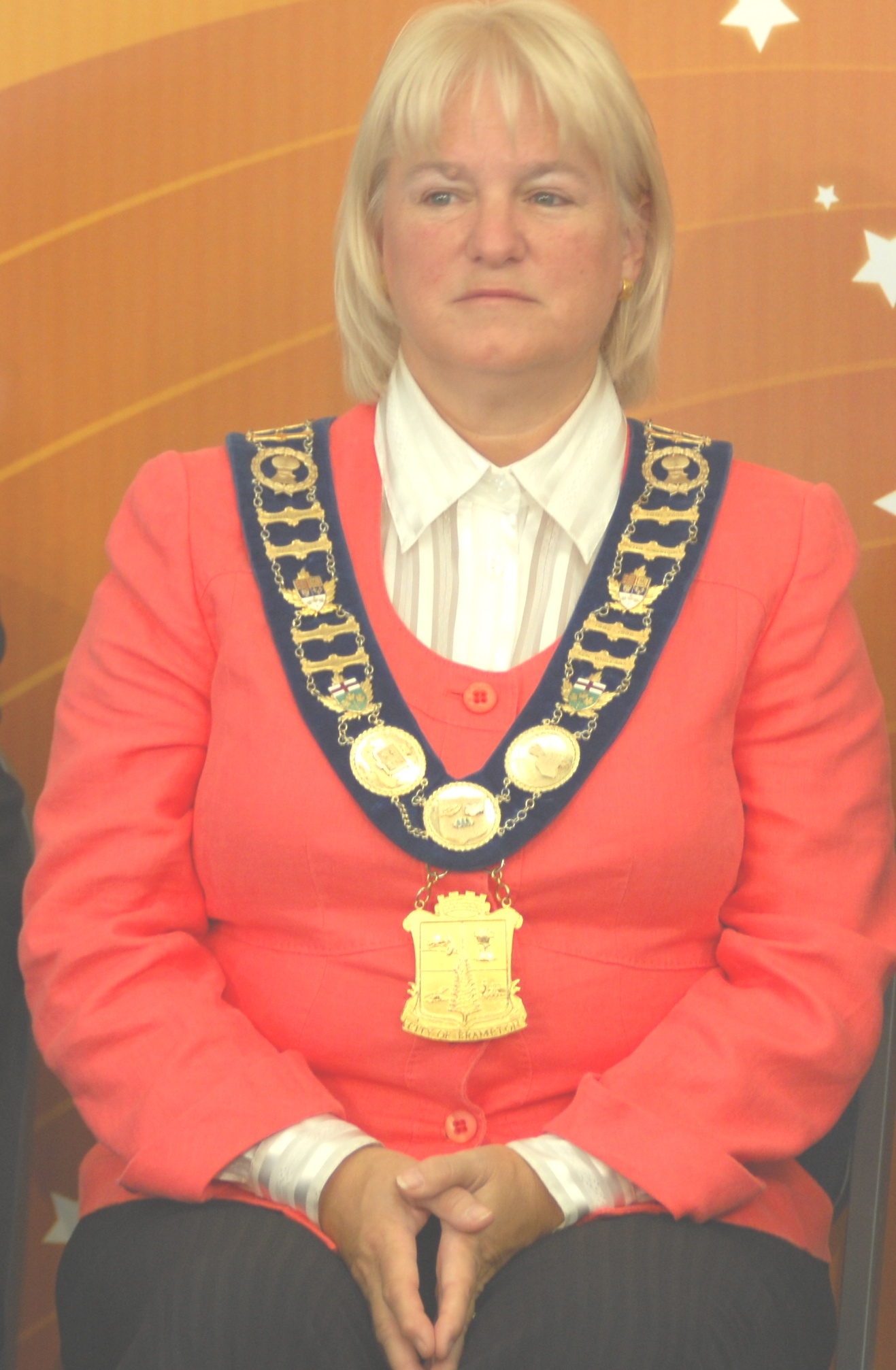 This is a picture of Susan Fennell (mayor of Brampton, Ontario, Canada). It was made by cropping and brightening Image:Baitan Nur Mosque Inauguration.jpg. Those minor edits do not alter the copyright (no creativity). So, the copyright is retained by same user on FlickR (see below). The following was from the original FlickR image: Calgary, Alberta, Canada A few of the honoured dignitaries at the opening inauguration of the Baitan Nur Mosque, considered the largest mosque in Canada. Stephen Harper, Stephane Dion, and Elizabeth May, among a great many other dignitaries and community members, were present for the inauguration of this Ahmadiyya Muslim mosque where His Holiness Mirza Masroor Ahmad conveyed a message of peace and unity.